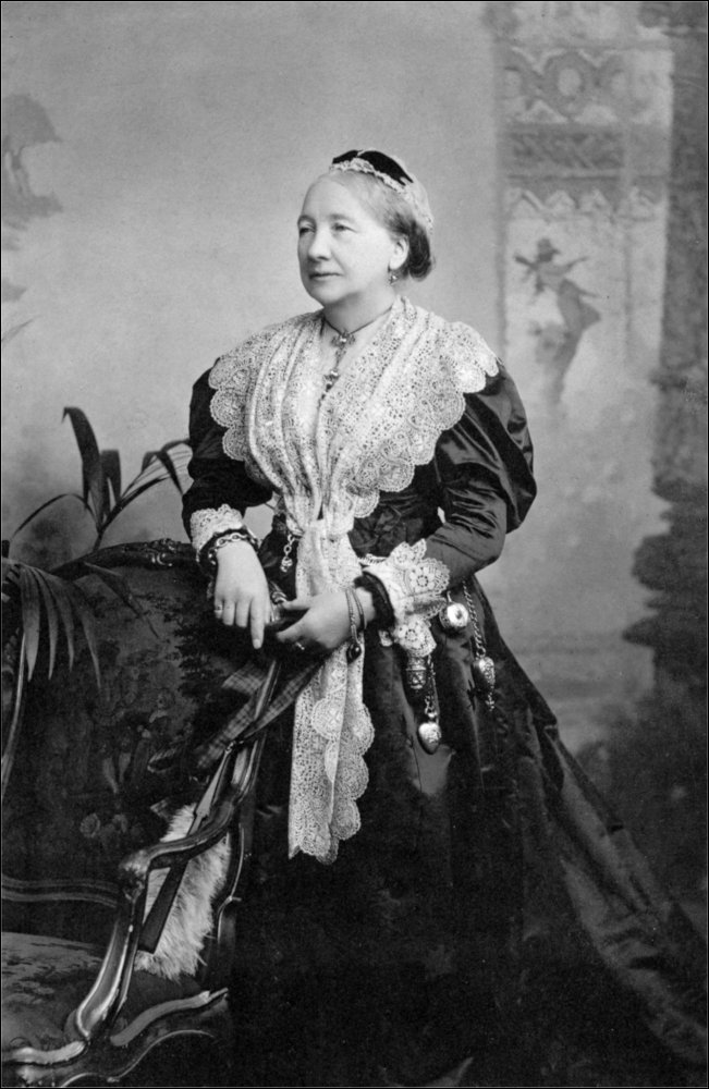 Photographic portrait of Scottish women's education reformer Jessie Campbell.